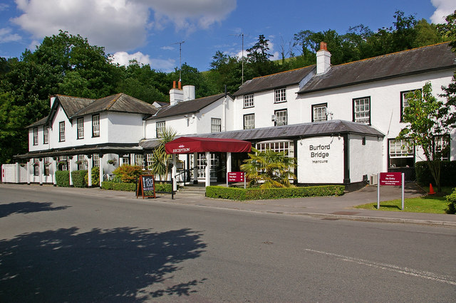 The Burford Bridge Hotel Parts of this listed-building, west-facing hotel date back to the 16th century. It is reputed to be the place where Lord Nelson spent his last hours with Lady Hamilton before leaving for Trafalgar. Other notable past guests include Keats, Wordsworth and Sheridan as well as Queen Victoria, Jane Austen and Robert Louis Stevenson. For many years part of the Forte hotel empire, it is now part of the French Mercure chain. Behind the hotel can be seen the slopes of Box Hill.